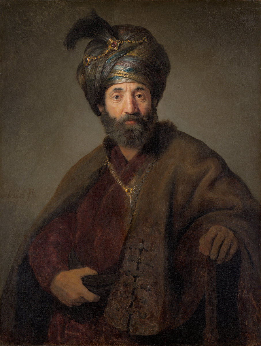 Rembrandt van Rijn and Workshop (Probably Govaert Flinck) Man in Oriental Costume